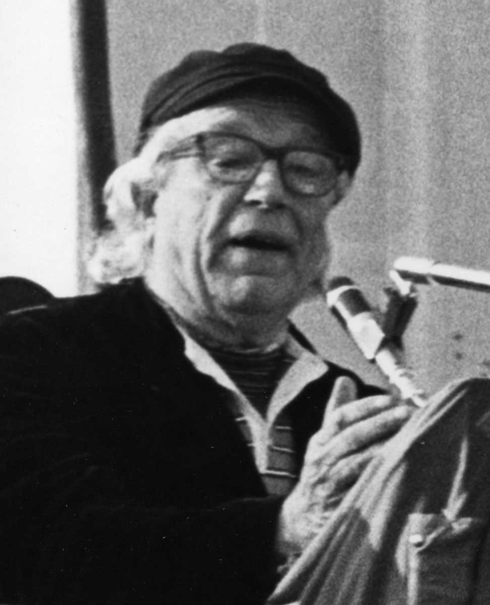 Andalusian poet Rafael Alberti in Madrid, Spain 1977.